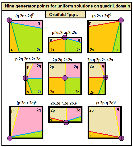 Wythoff construction on square domain